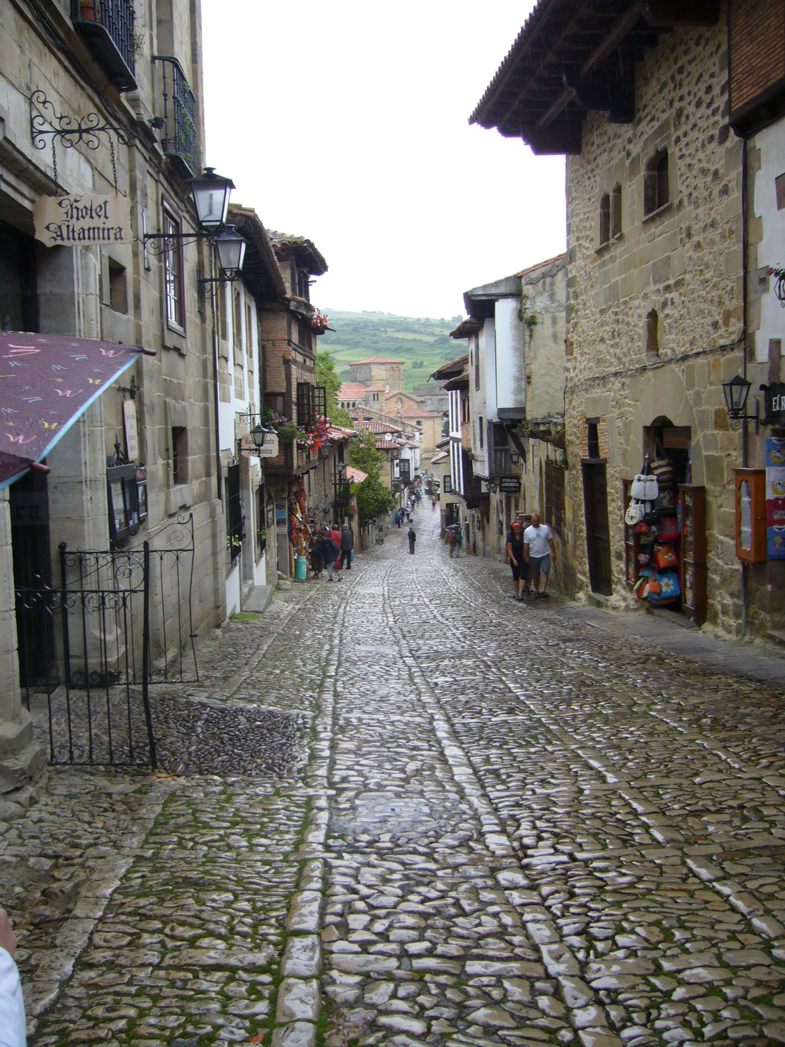 Santillana del Mar (Cantabria, Spain)